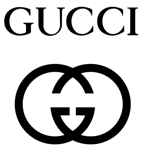 1960s Gucci logo; interlocking-G logo